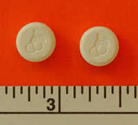 5-MeO-MIPT, photo by the DEA.